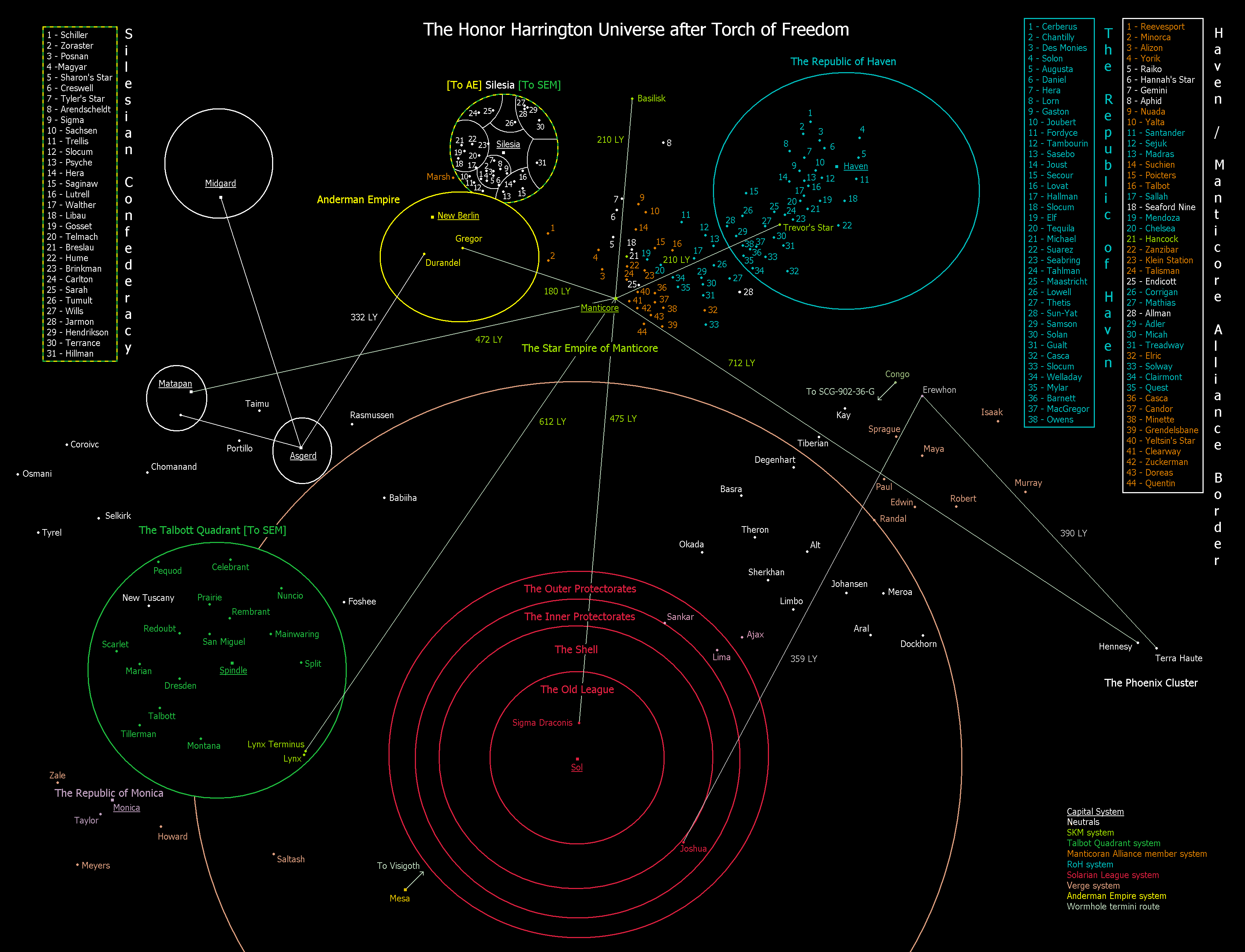 A composite map of the Honor Harrington Universe based on maps published in On Basilisk Station, The Short Victorious War, Honor Among Enemies, In Enemy Hands, The Shadow of Saganami, At All Costs, and two of David Weber's hand-drawn maps posted on Baen's Bar in 2004, the oryginals are now to be found at Fifth Imperium Infodump. For more maps and information on locations in the Honorverse visit my site Honorverseglossary.